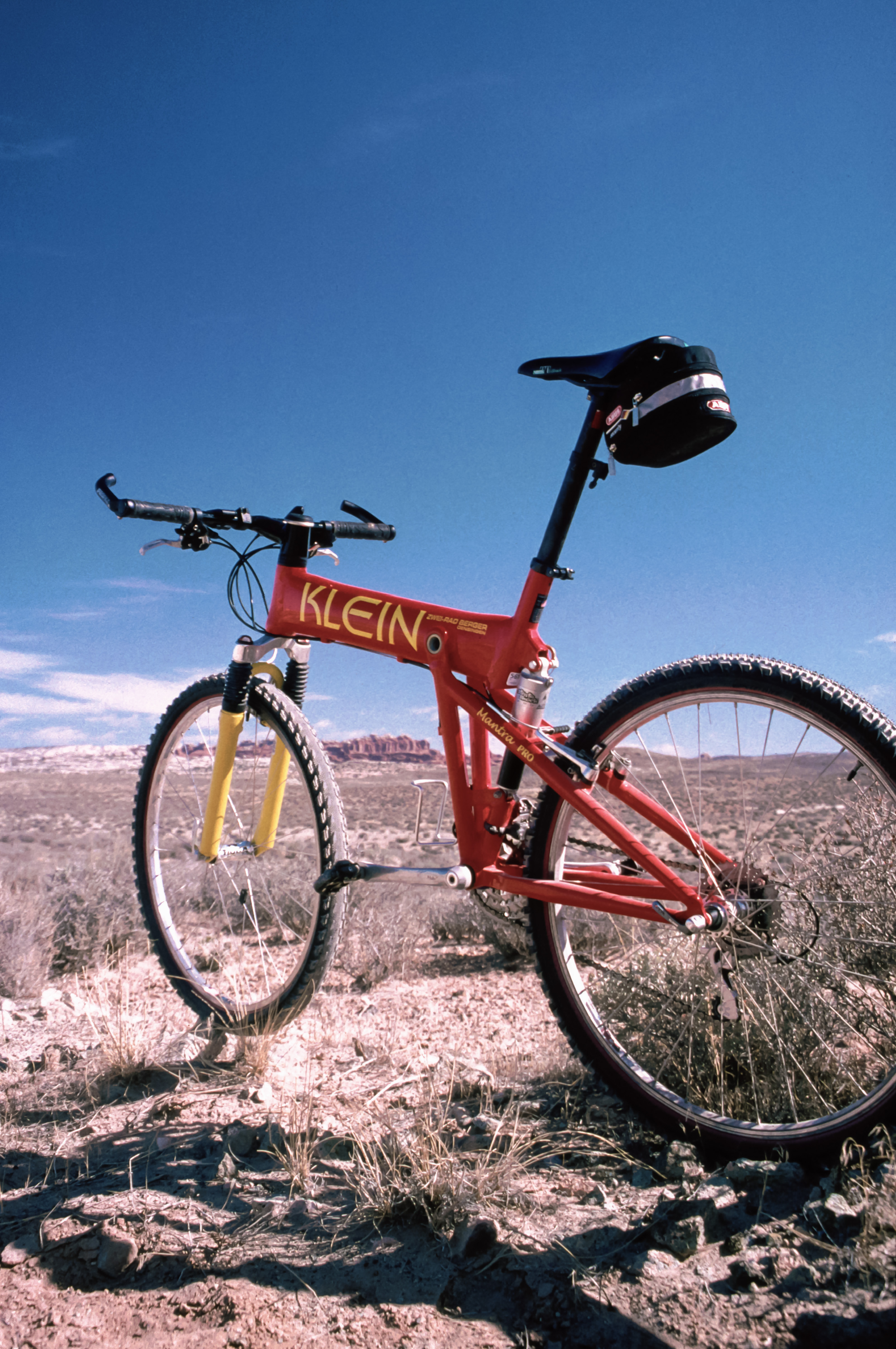 Klein Mantra Pro